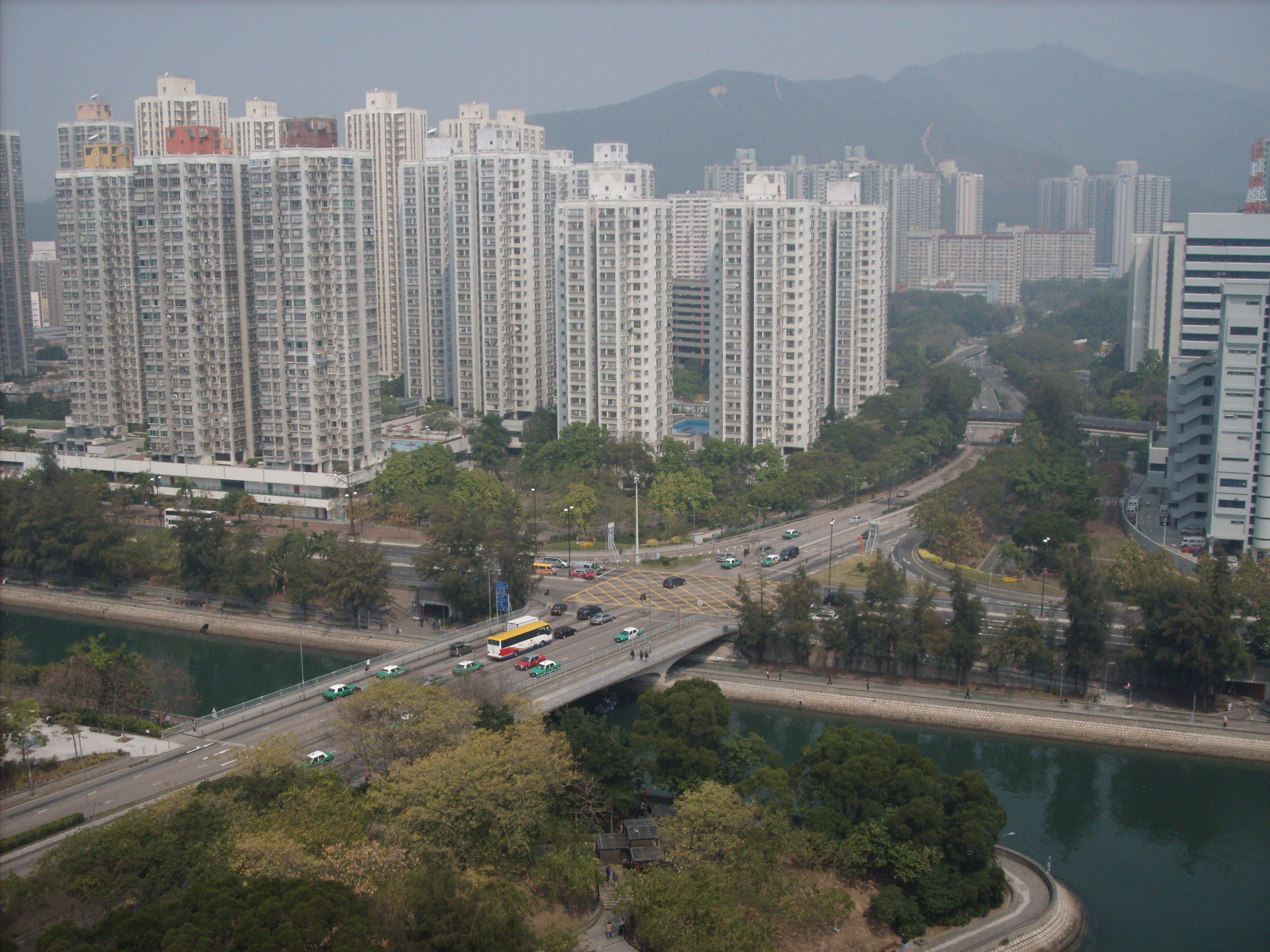 View of Tai Po from High-Rise